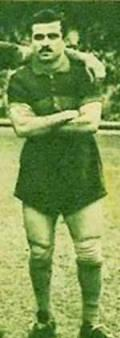 Alberto R. Cardona